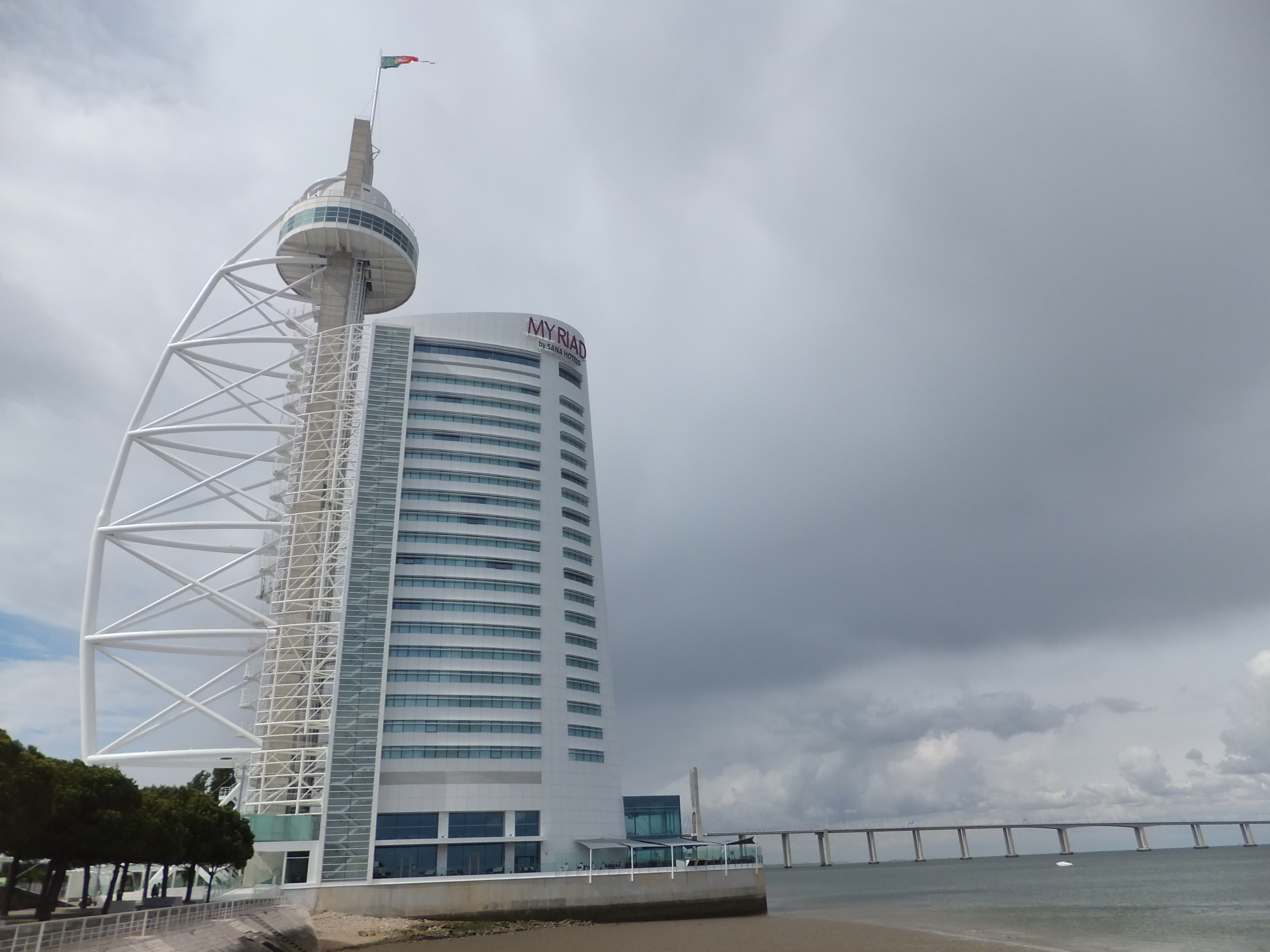 Vasco da Gama Tower and Vasco da Gama Bridge in Park of the Nations in Lisbon, Portugal